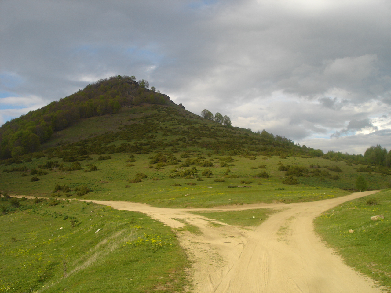 Temna Buka (Dark Beech) peak on Karadzica mountain, Macedonia